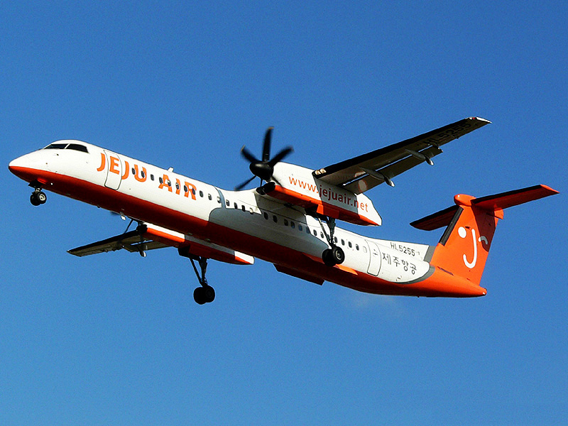 Jeju Air(7C/JJA) Bombardier Dash 8 Q400